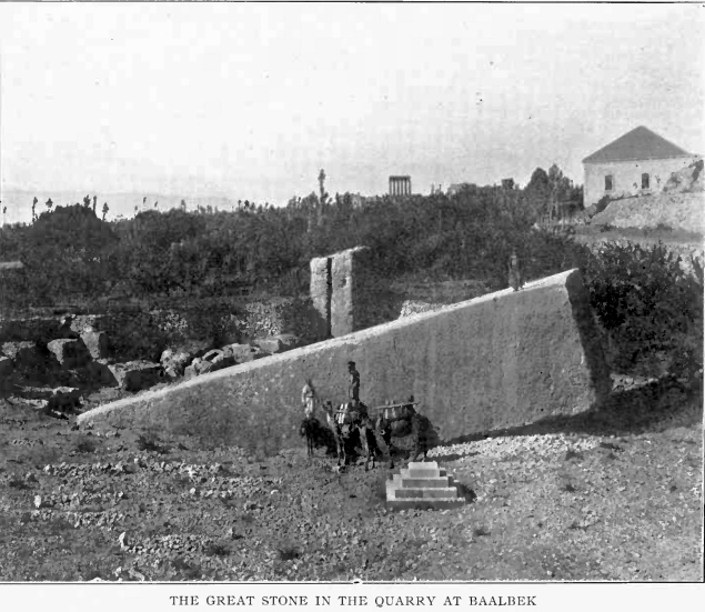 Baalbek